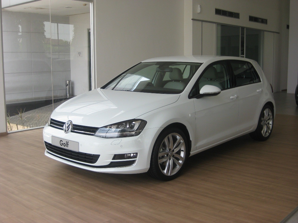 2013 Volkswagen Golf VII 1.4 TSI.